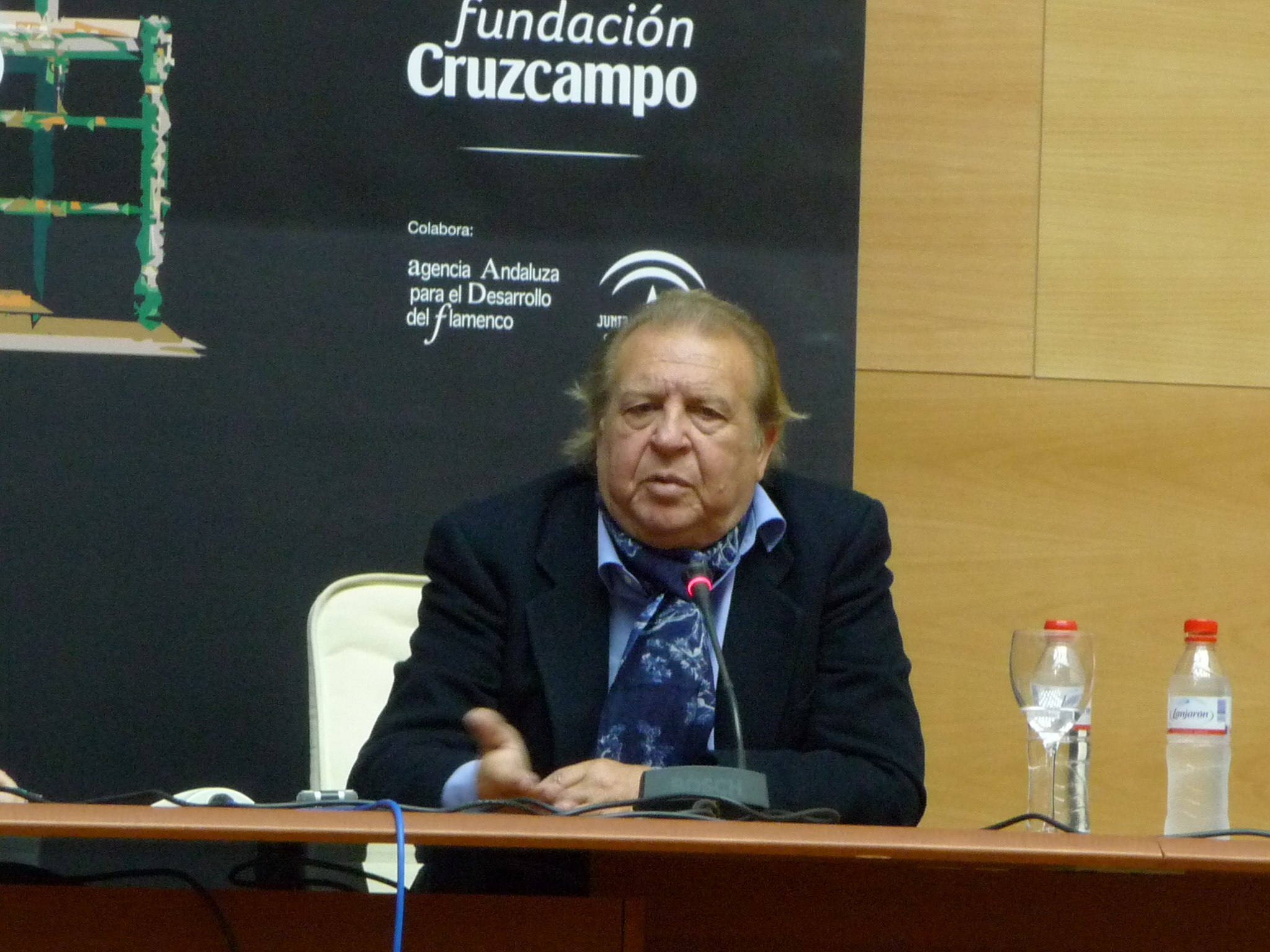 El Lebrijano (flamenco singer)